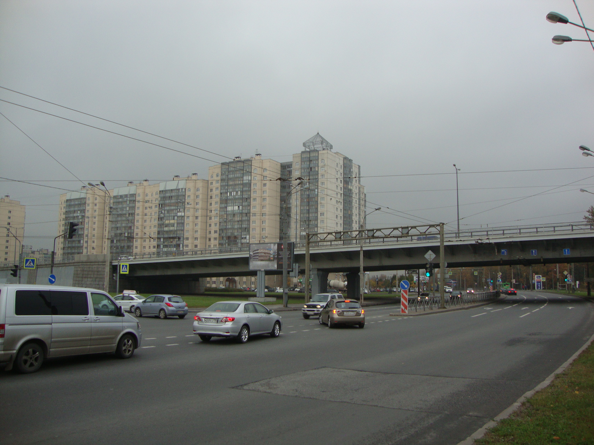 Колтушский путепровод (2014)